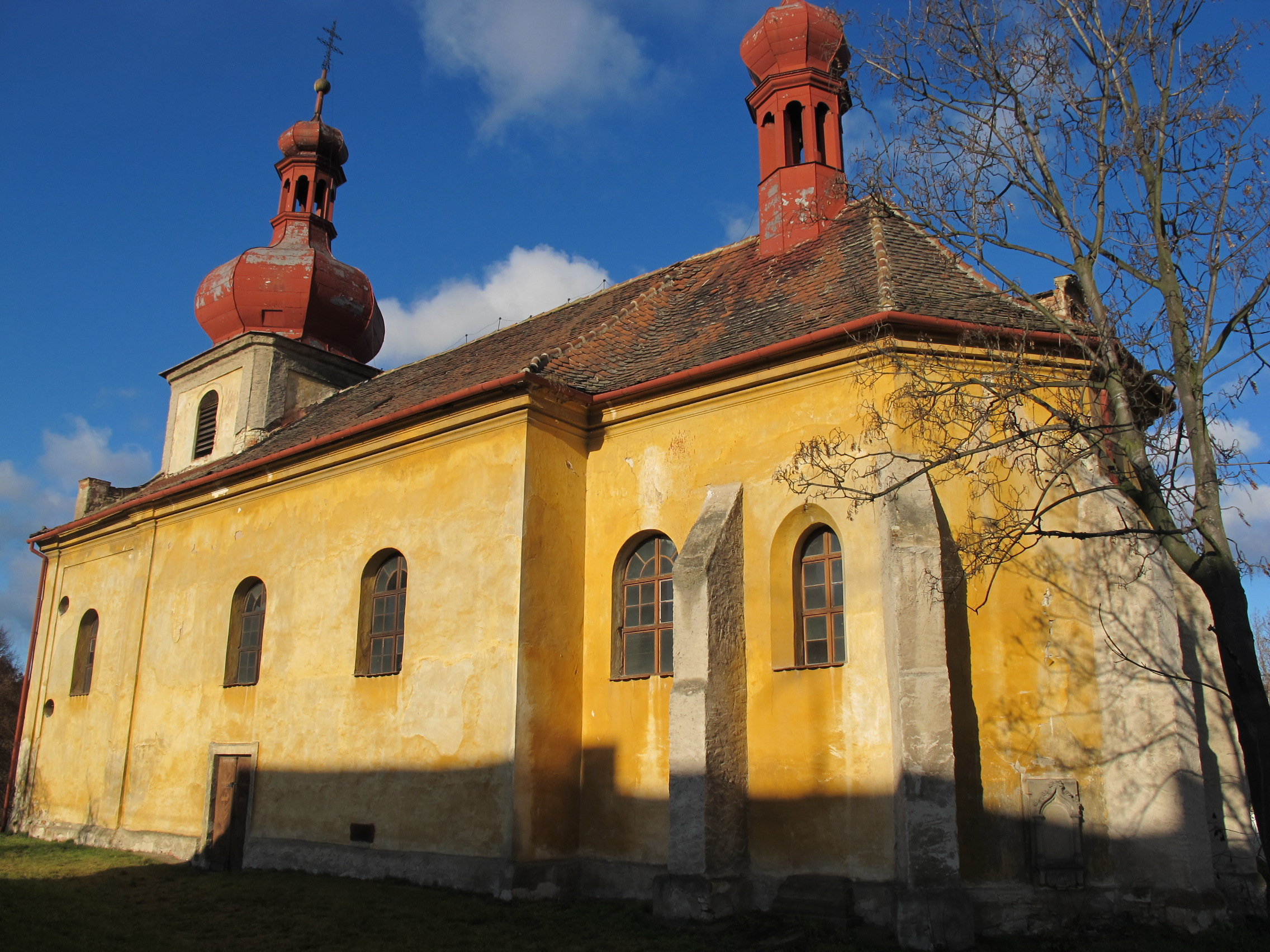 Church of St. Wenceslaus in Radíčeves